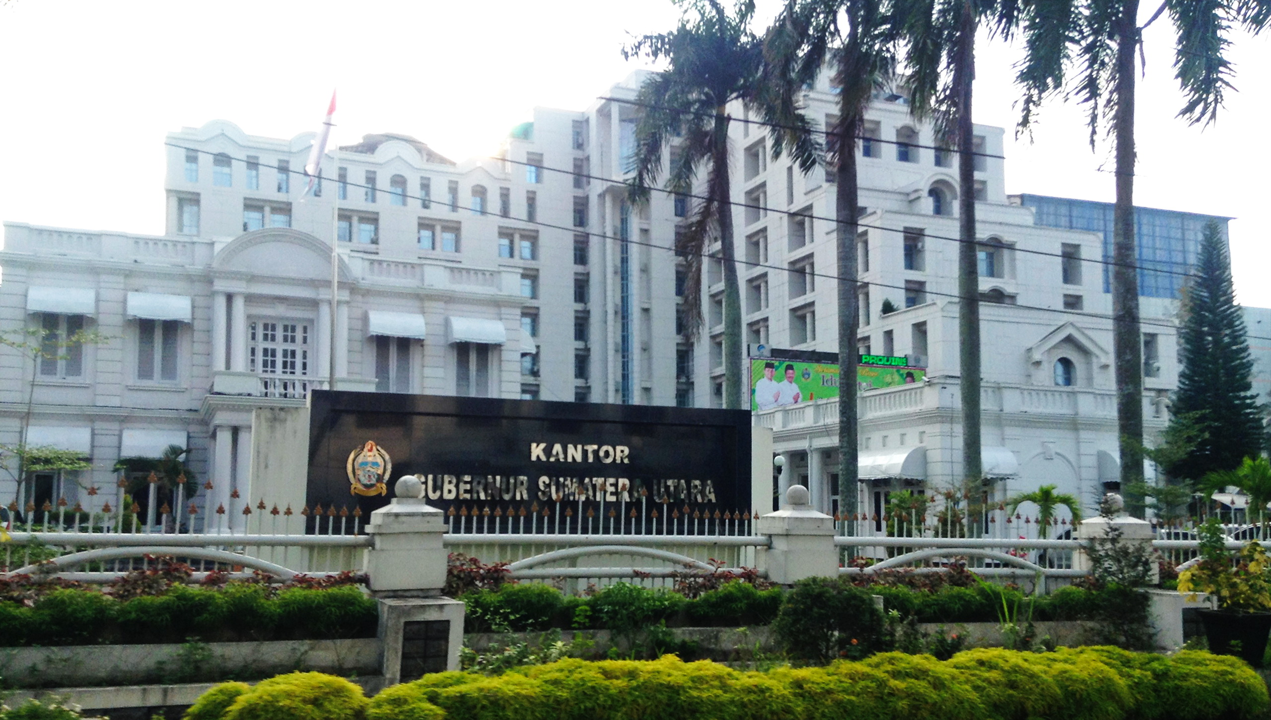 North Sumatra government office